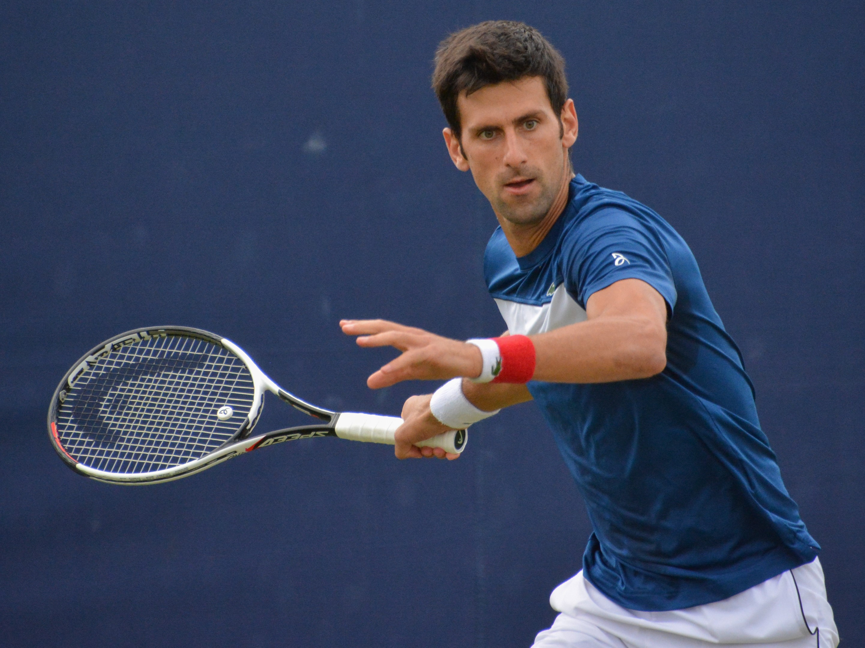 On the practice court at the Fever-Tree Championships, Queen's Club, June 2018.